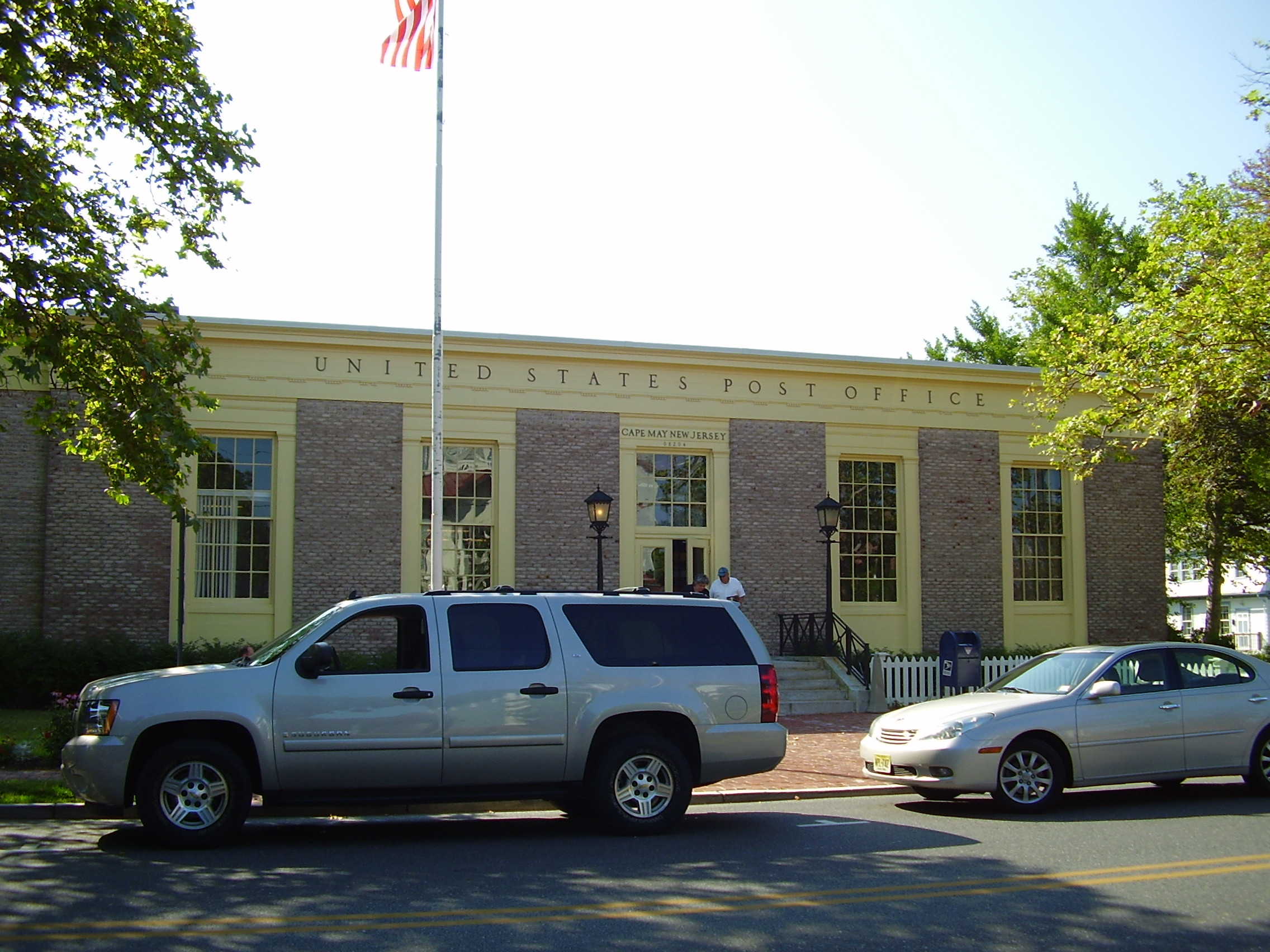 Cape May Post Office